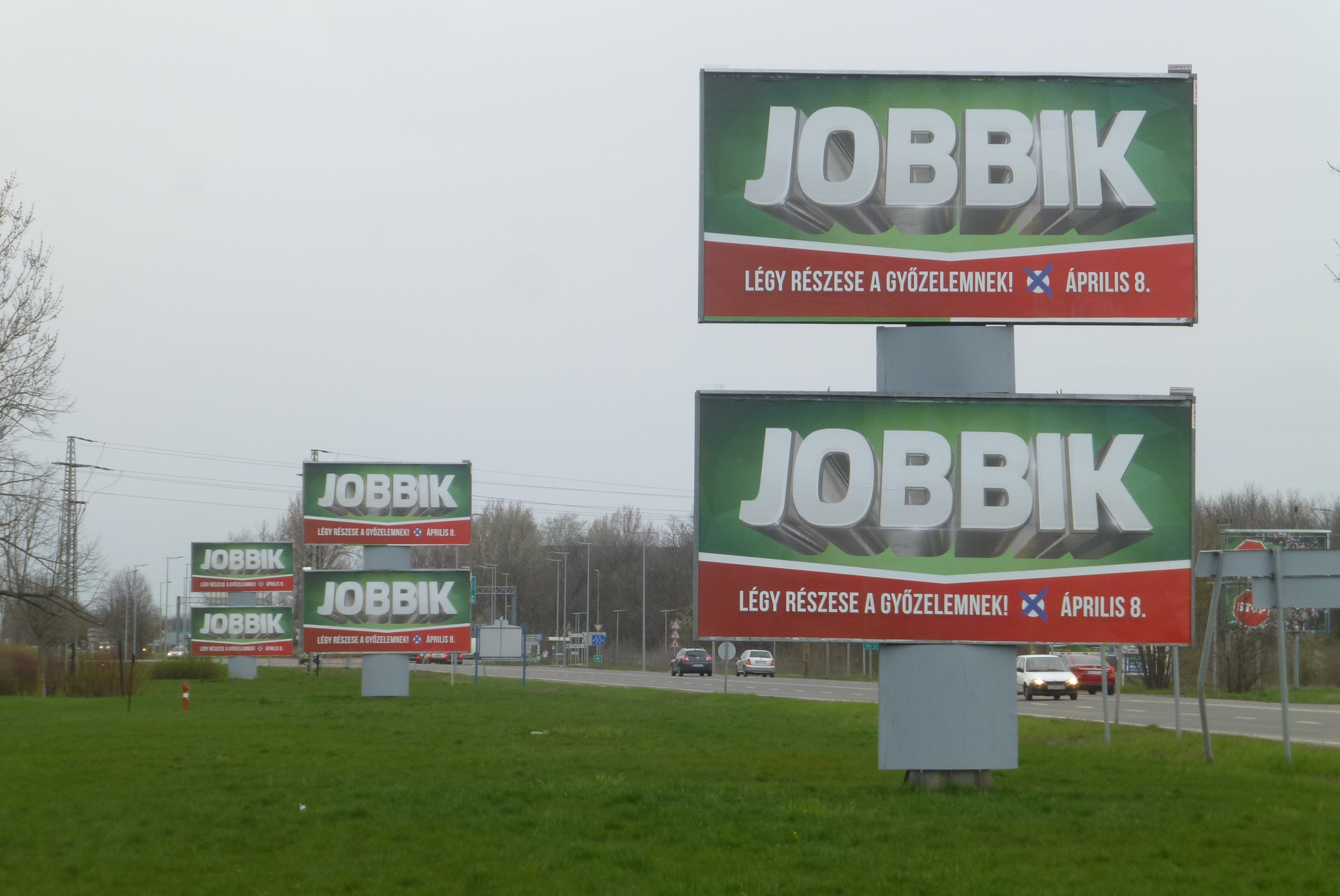 Posters of the Jobbik during the 2018 Hungarian election's campaign along the national route 5 in Szeged, Hungary